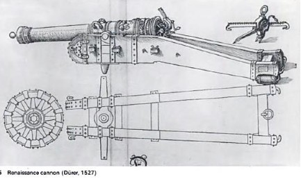 Drawing of a 16th Century Cannon used in field artillery